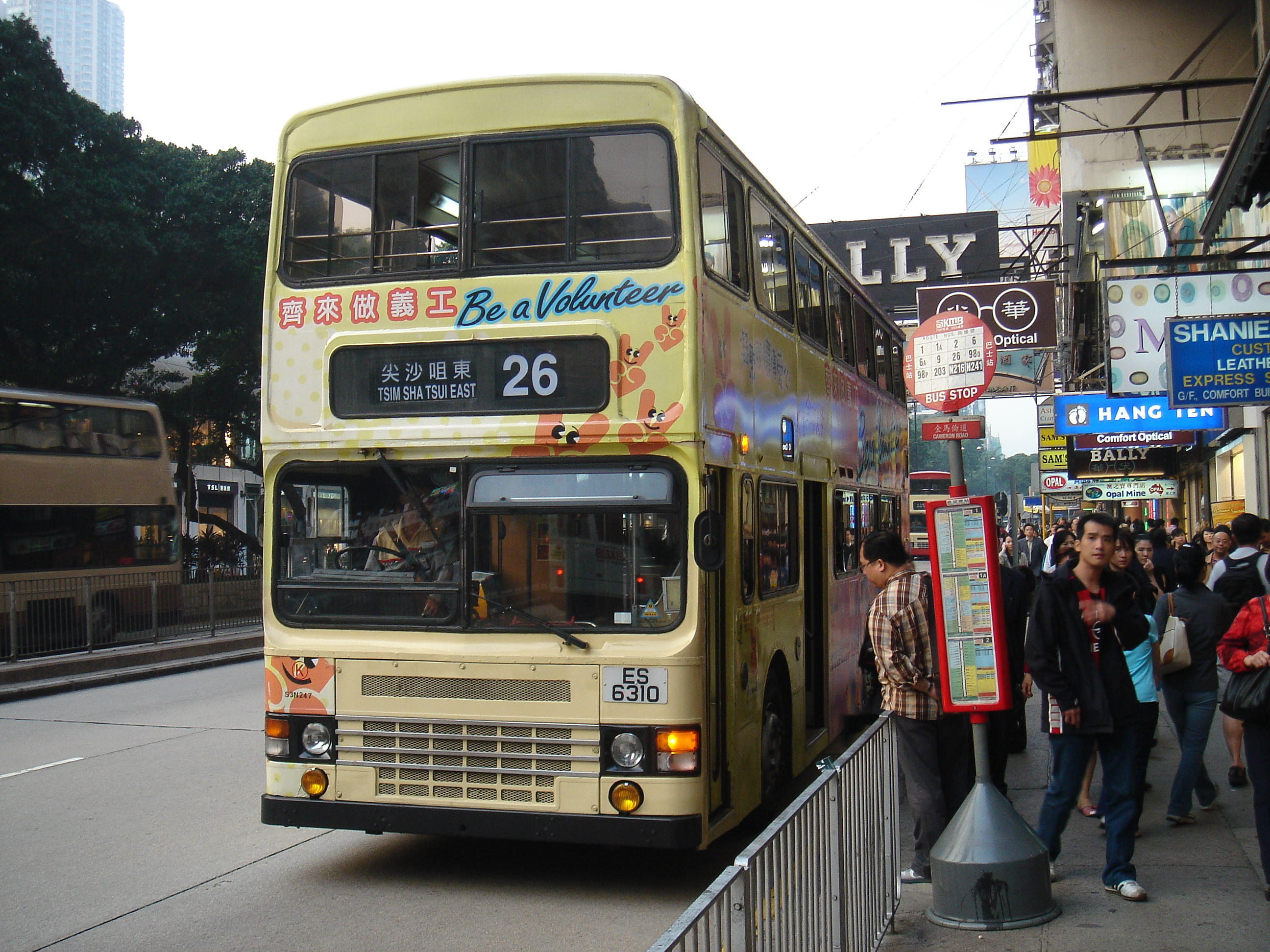 Dennis Dragon, Duple-Metsec bodied KMB bus on Nathan Road, Tsim Sha Tsui, Kowloon, Hong Kong.